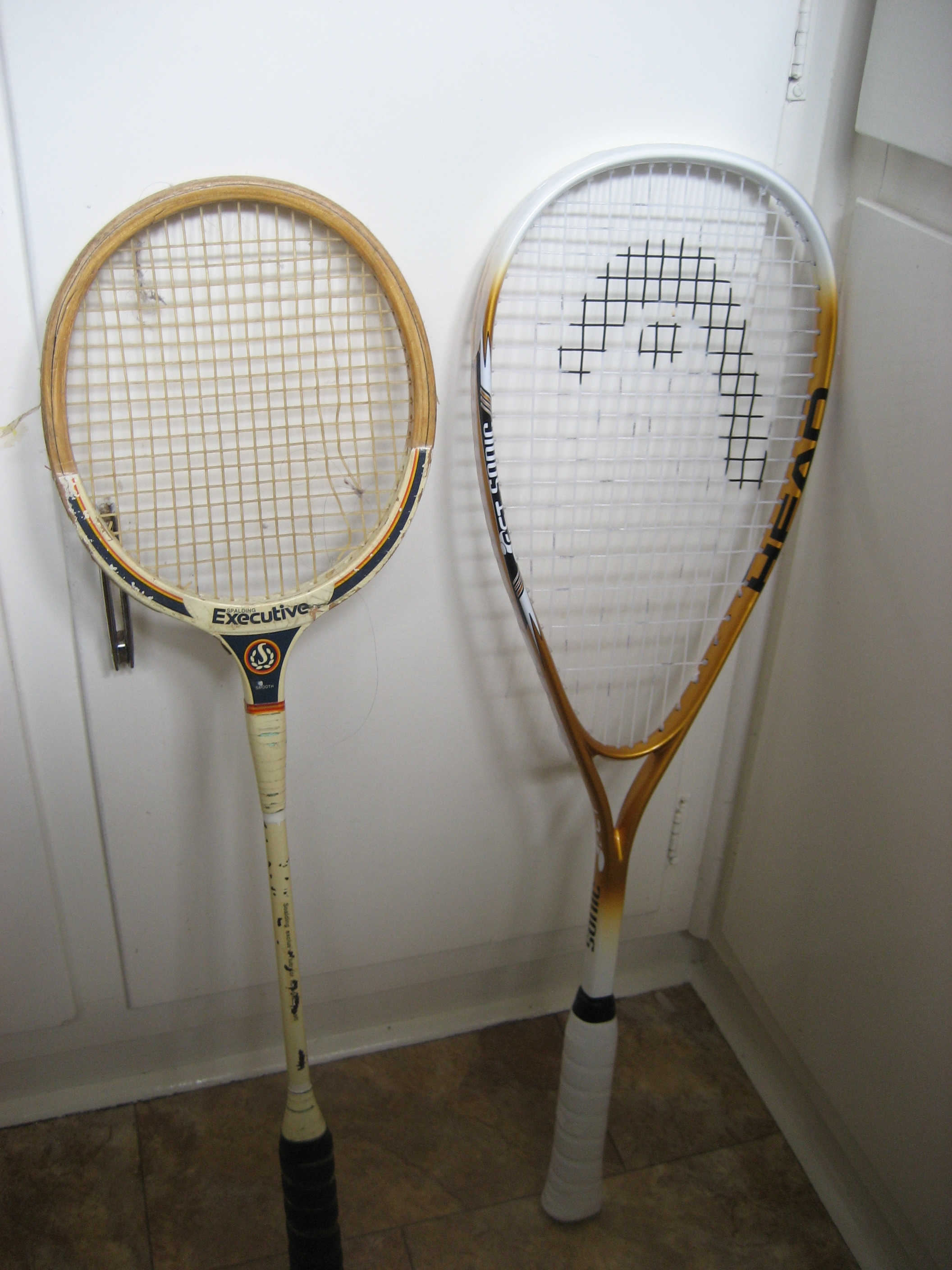 Two squash racquets at my house